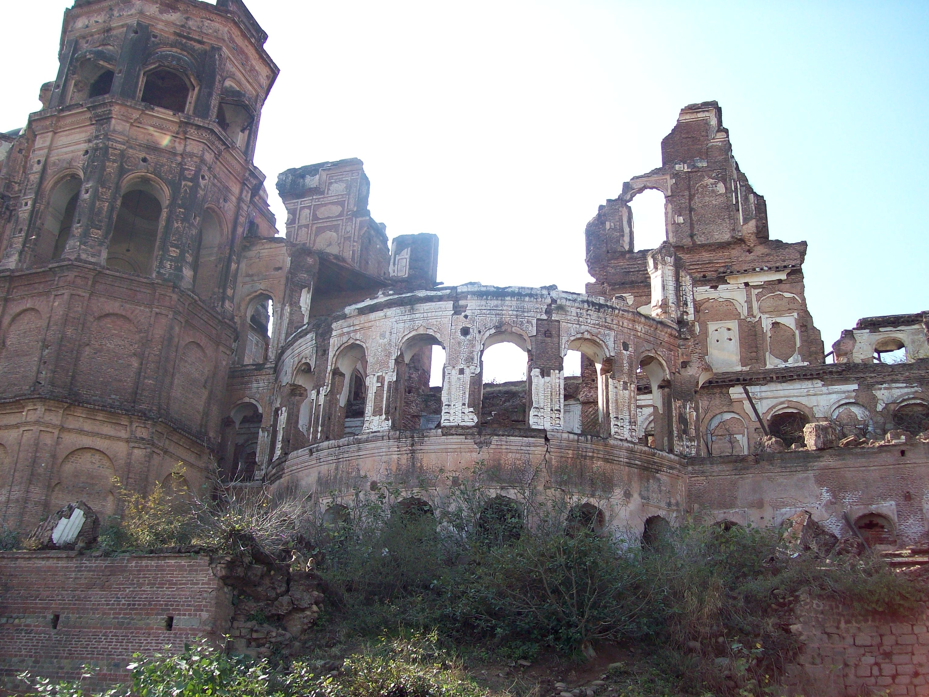 Part of the Mubarak Mandi complex, built on a high bluff that looks out over the vast spread of River Tavi